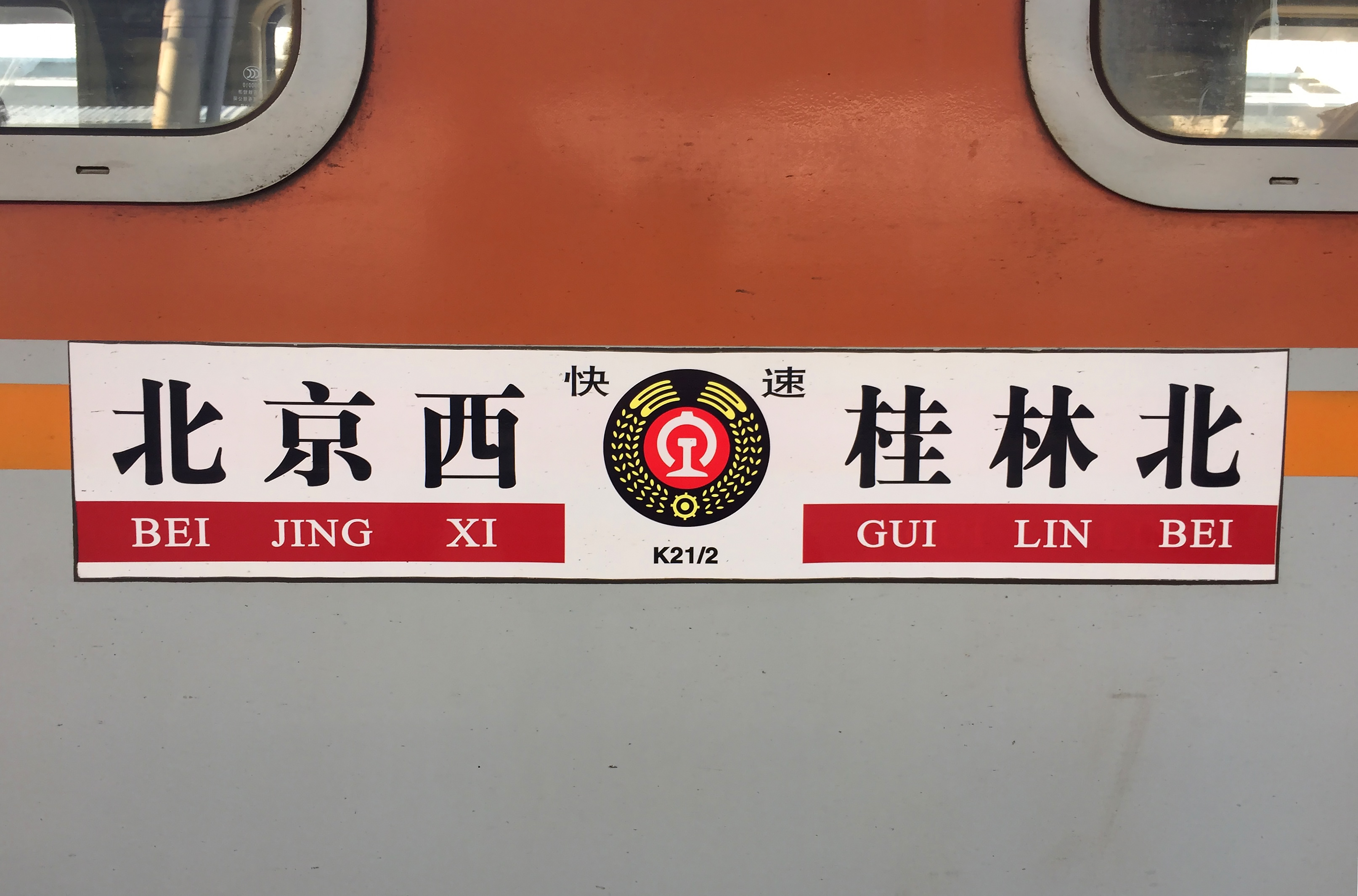 This train is bound for Guilin North and departs at 8:08 - but no rice noodles are offered on the first morning.